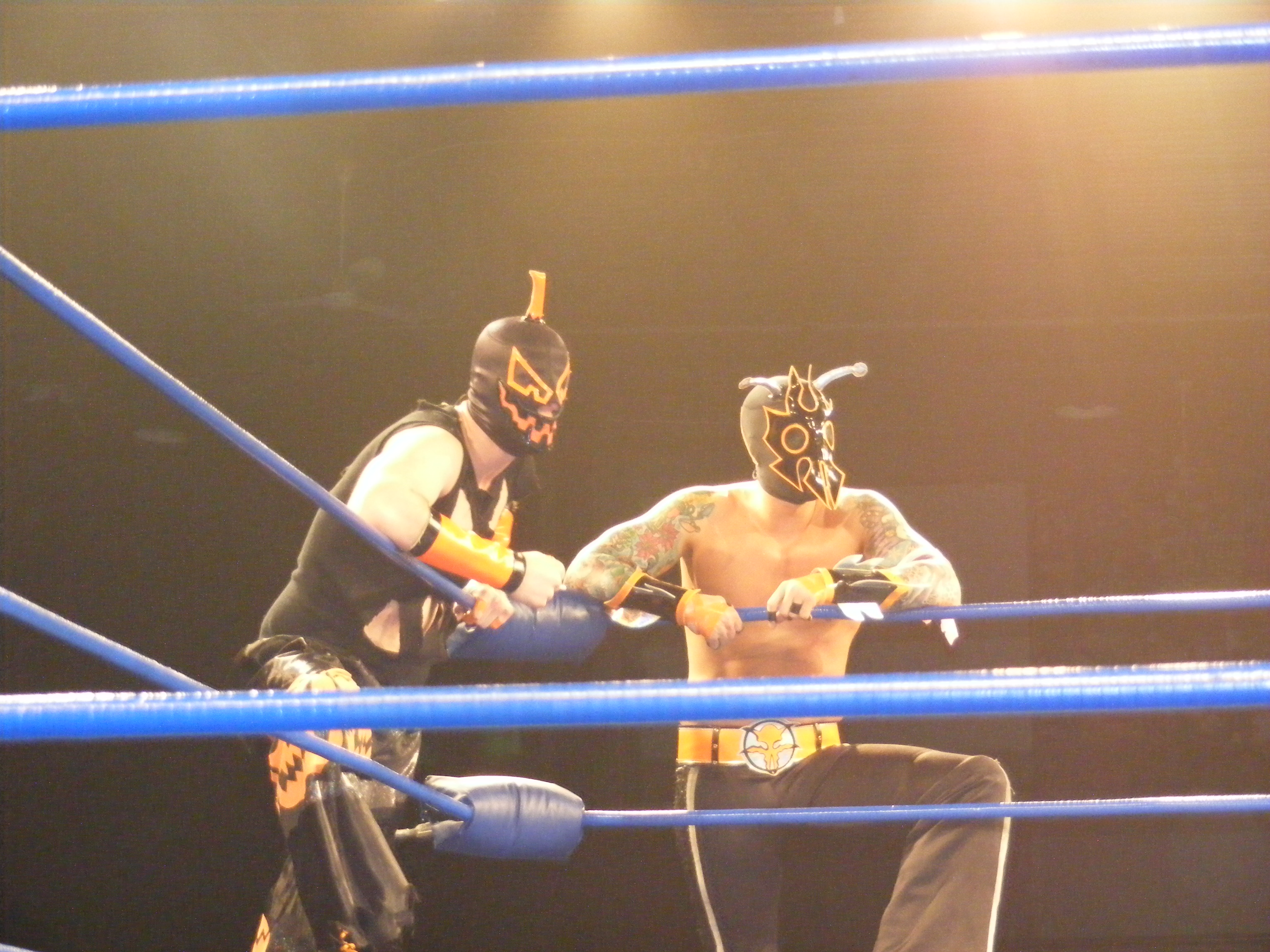 Professional wrestlers UltraMantis Black and Hallowicked at Chikara King of Trios 2011.